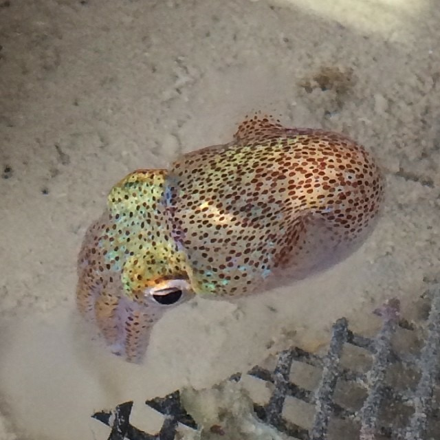 Hawaiian Bobtail Squid (Eurpymna scolopes)